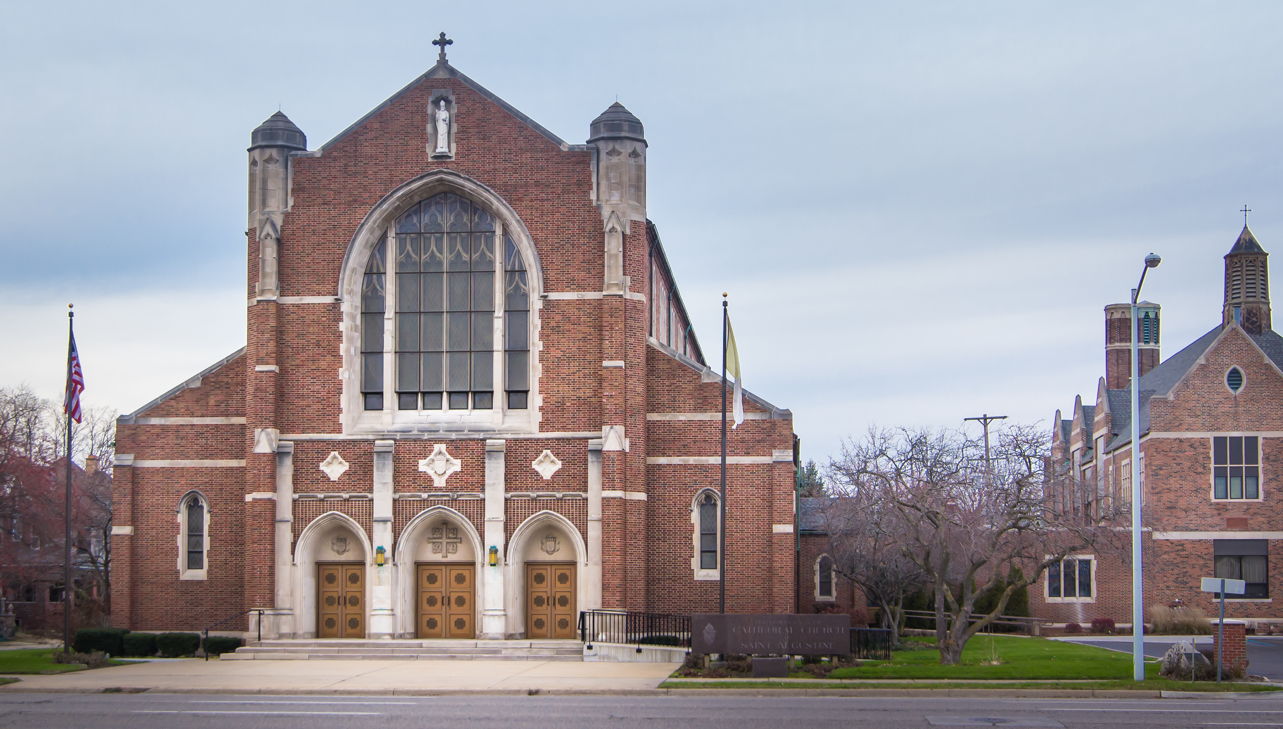 Cathedral of Saint Augustine (Kalamazoo, Michigan)